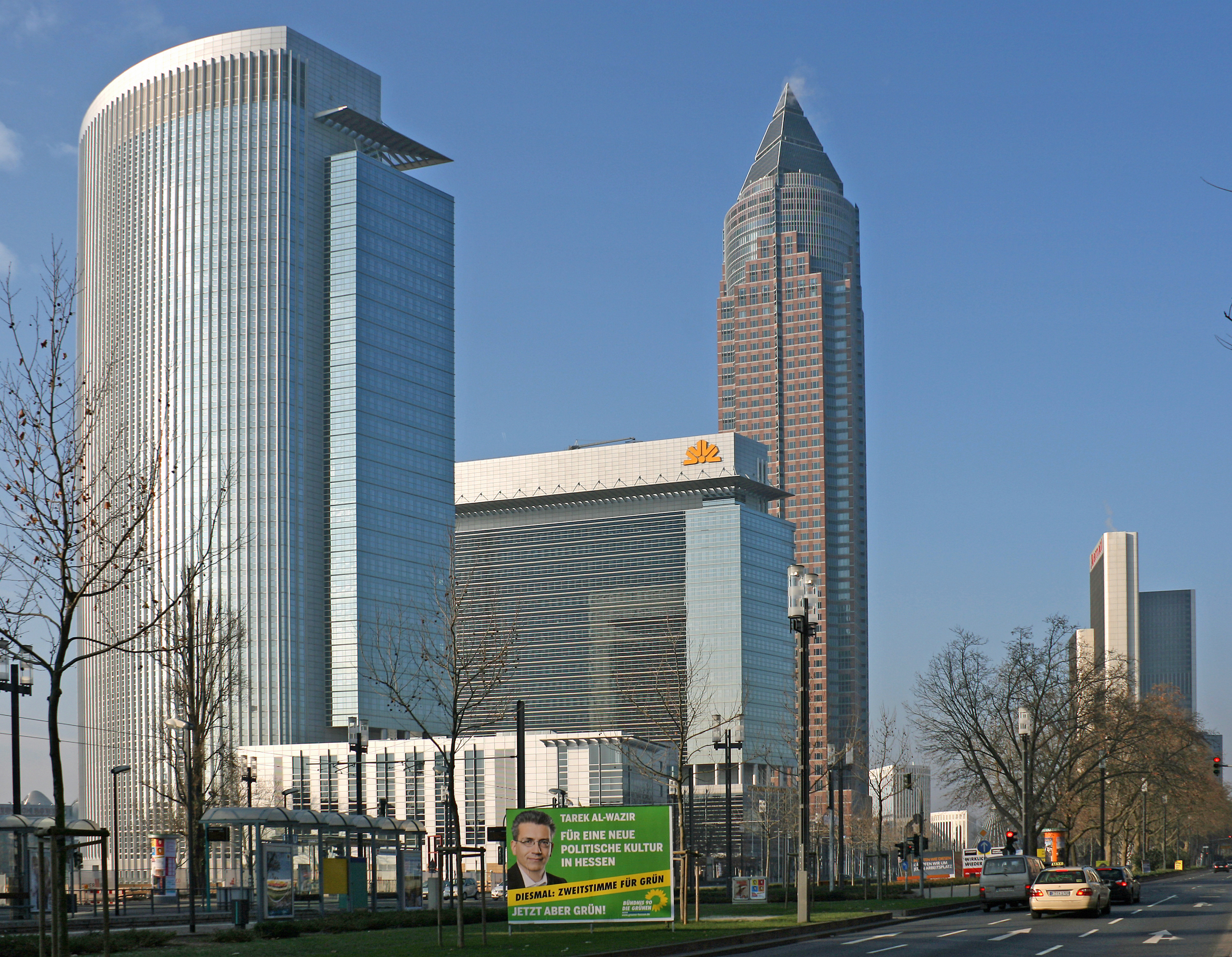 skyscrapers near the Frankfurt Trade Fair